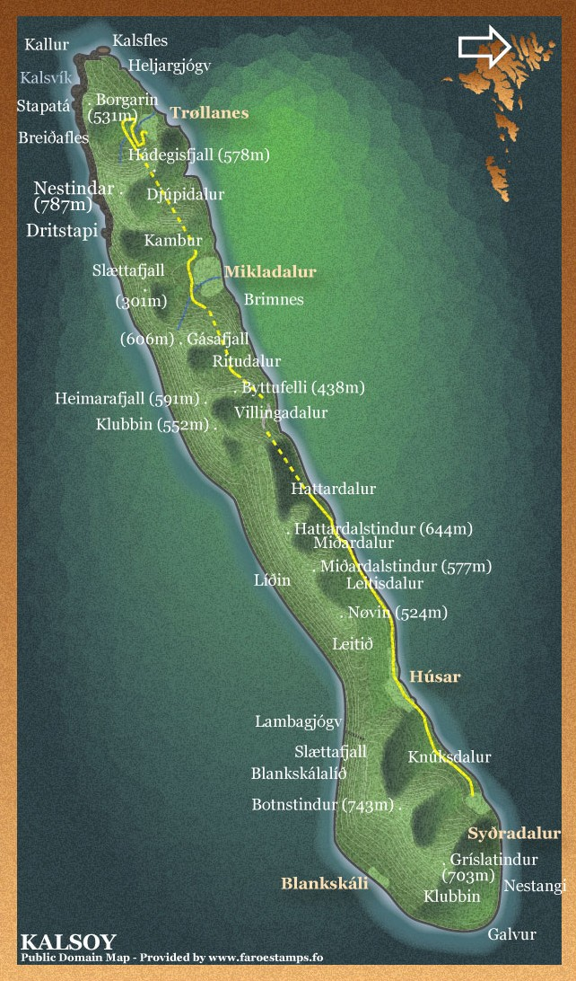 Kalsoy, Faroe Islands